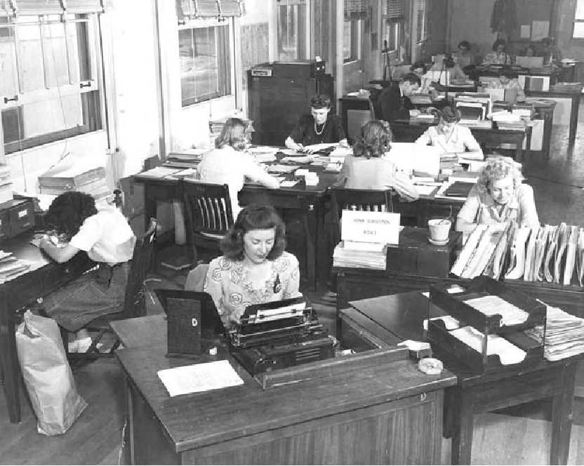 Women cryptologists of the SIS at work at Arlington Hall. At the right front is Ann Caracristi, who would later become deputy director of NSA.